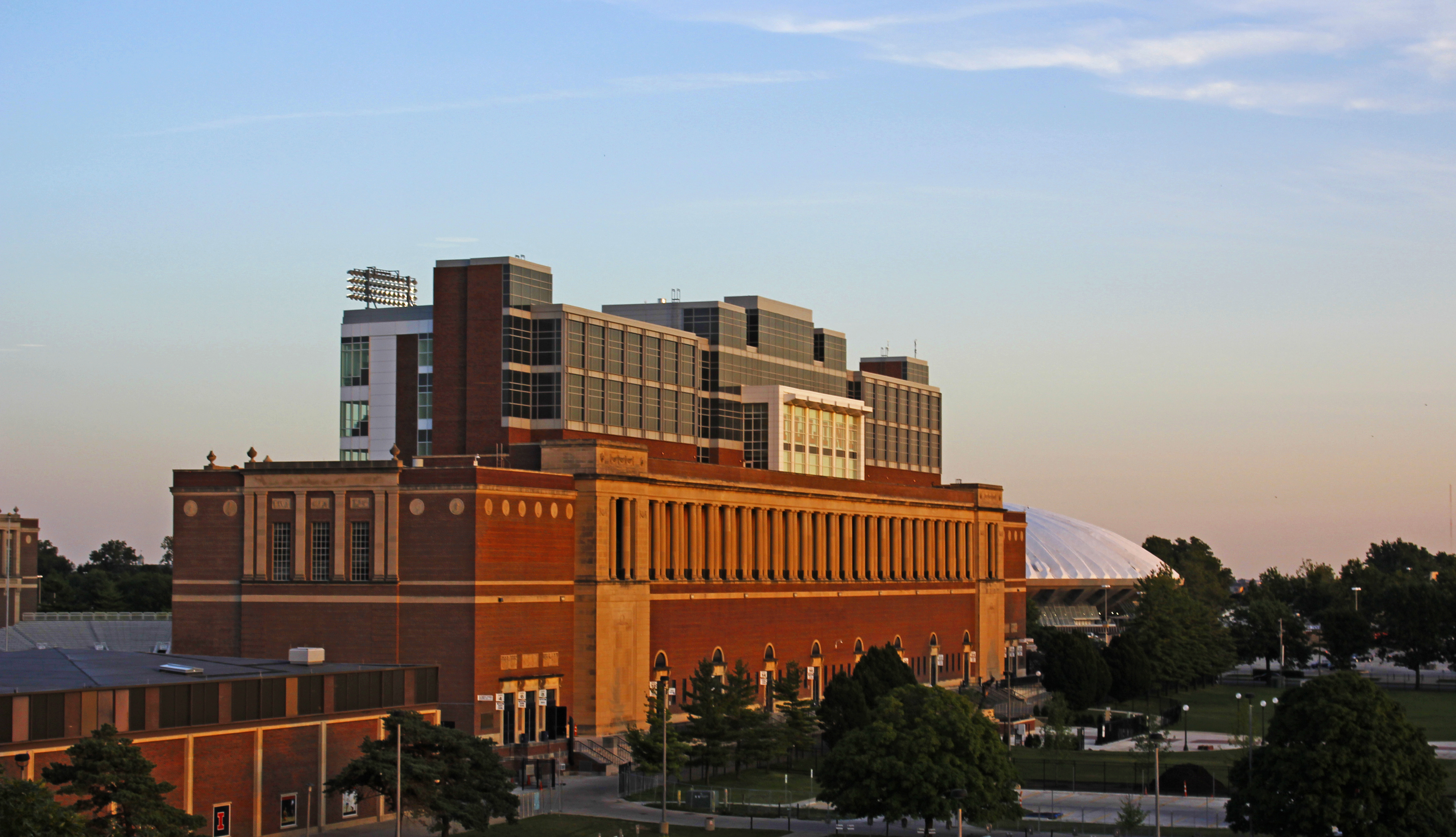 Memorial Stadium located on the Campus of th University of Illinois Urbana Campaign